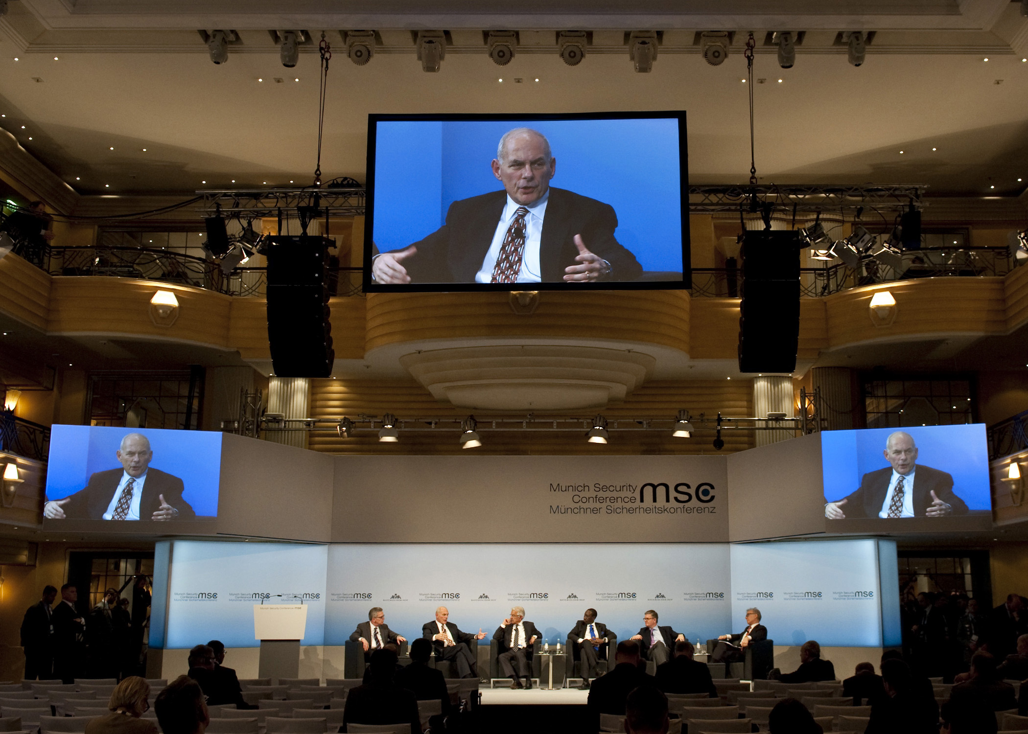 MUNICH - U.S. Secretary of Homeland Security John Kelly participates in the 2017 Munich Security Conference in Munich, Germany, Feb. 18, 2017. Over the past five decades, the MSC has become the major global forum for the discussion of security policy. Each February, it brings together more than 450 senior decision-makers from around the world, including heads-of-state, ministers, leading personalities of international and non-governmental organizations, as well as high ranking representatives of industry, media, academia, and civil society, to engage in an intensive debate on current and future security challenges. Official DHS photo by Barry Bahler.